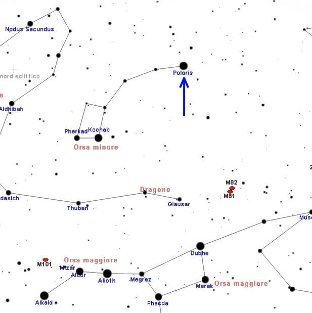 Polaris